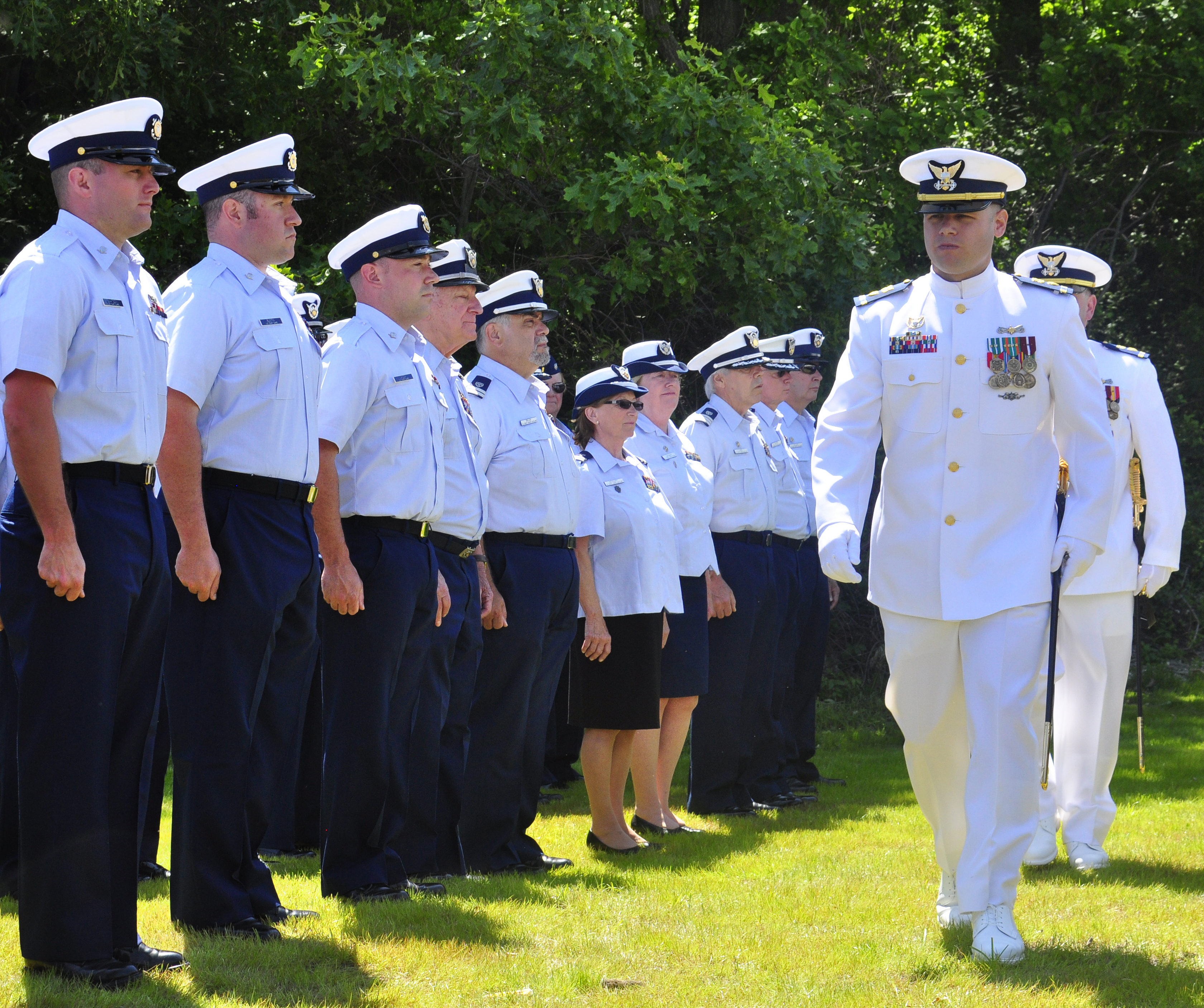 Coast Guard Chief Warrant Officer Steve Pollock, former commanding officer of Coast Guard Station Eatons Neck, performs a final uniform inspection on the 50-person crew during a change of command ceremony in Northport, N.Y, June 20, 2013. Pollock will be reporting to the Coast Guard Cutter Sea Fox, an 87-foot patrol boat home-ported in Silverdale, Wash. (U.S. Coast Guard photo by Petty Officer 3rd Class Ali Flockerzi)